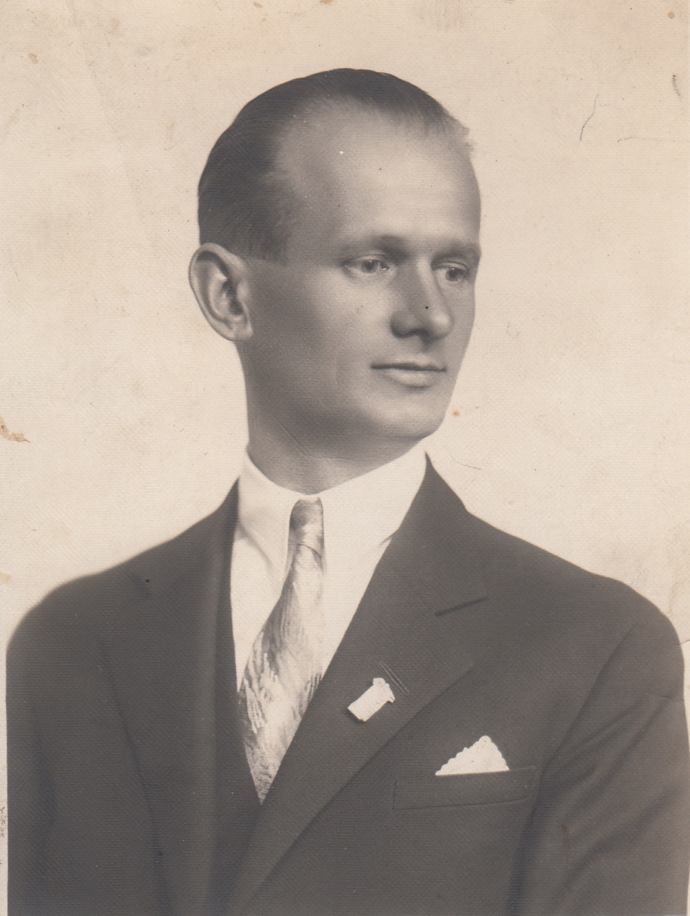 A photograph of Michal Labáth (1928). Inventory number 1305. Srpski (latinica): Fotografija Mihala Labata (1928). Inventarski broj 1305.